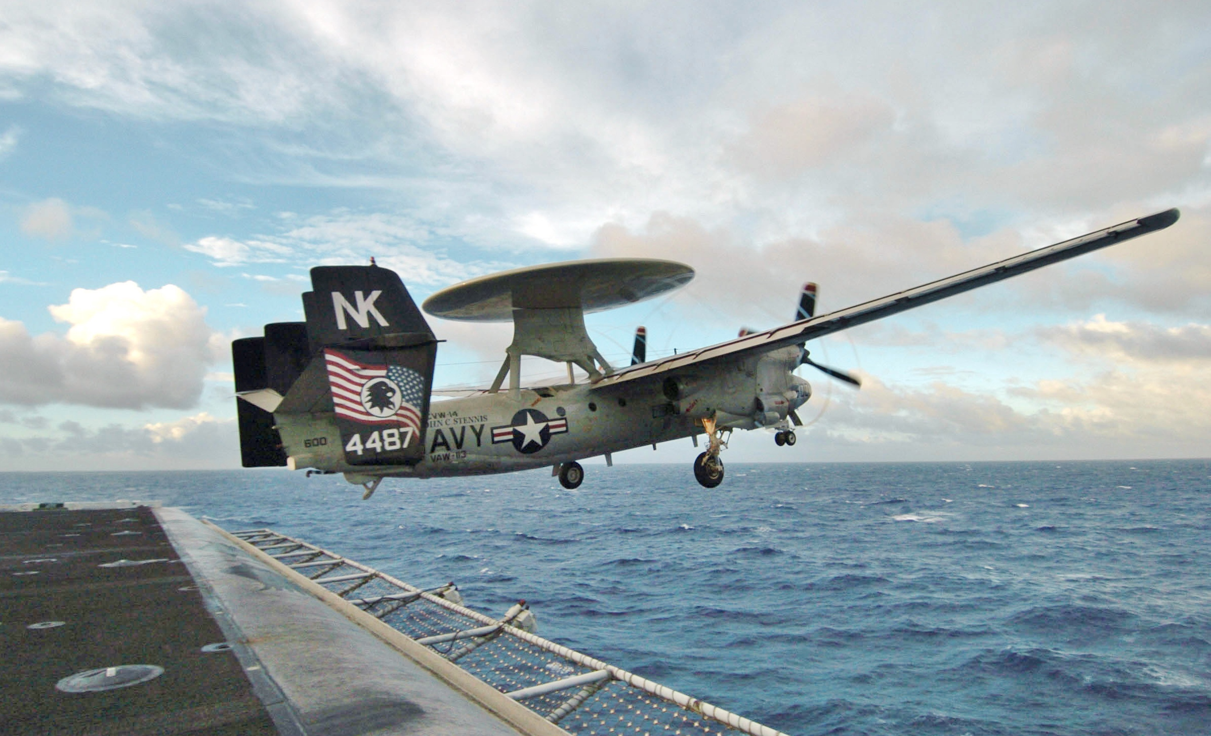 Pacific Ocean (Aug. 10, 2004) - An E-2C Hawkeye assigned to the "Black Eagles" of Carrier Airborne Early Warning Squadron One One Three (VAW-113) launches from one of four steam-powered catapults off the flight deck aboard the nuclear powered aircraft carrier USS John C. Stennis (CVN 74). Stennis and Carrier Air Wing Fourteen (CVW-14) are at sea on a scheduled deployment. U.S. Navy photo by Photographer's Mate 3rd Class Mark J. Rebilas (RELEASED)